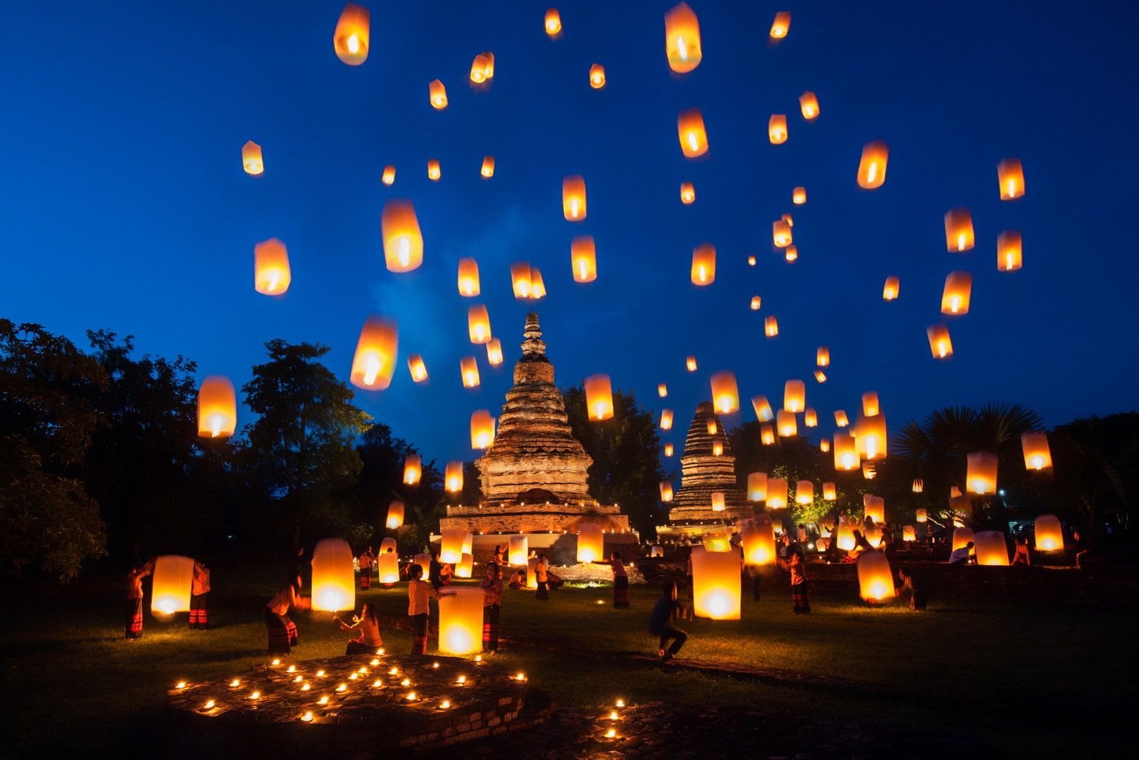 Wiang Thakan or Vieng Tah Garn is located at Thakan Village, Tumbol Barn Klang, San Patong District. The town plan is a rectangle shape with a size of 500x700 meters. The city planning was laid down to correspond with the water route of Mae Ping River that flows through the North West to the South East areas. There are two rivers that flow along both sides of Wiang Thakan. The first one is at the west side and it is called the Kan River while at the east side there is the Mae Ping River flowing through both sides of the city resulting in the land becoming fertile. Wiang Thakan city wall is a Two-layer rampart. There is a ditch in between. There are several important temples which are Hariphunchai era style temples inherited from Lanna civilization. So, we will find Hariphunchai style baked clay mold Buddha Statues and baked clay utensils, Bronze Buddha, and Lanna utensils. Since B.E. 2550 (2007) Her Royal Highness Princess Chulabhorn and Her Royal Highness Princesses, her daughters (the grandaughters of the King), come to preside over the Loi Krathong Festival every year. There are many important activities such as the release of the flying light to worship Pra Ket Kaew Chula Manee.